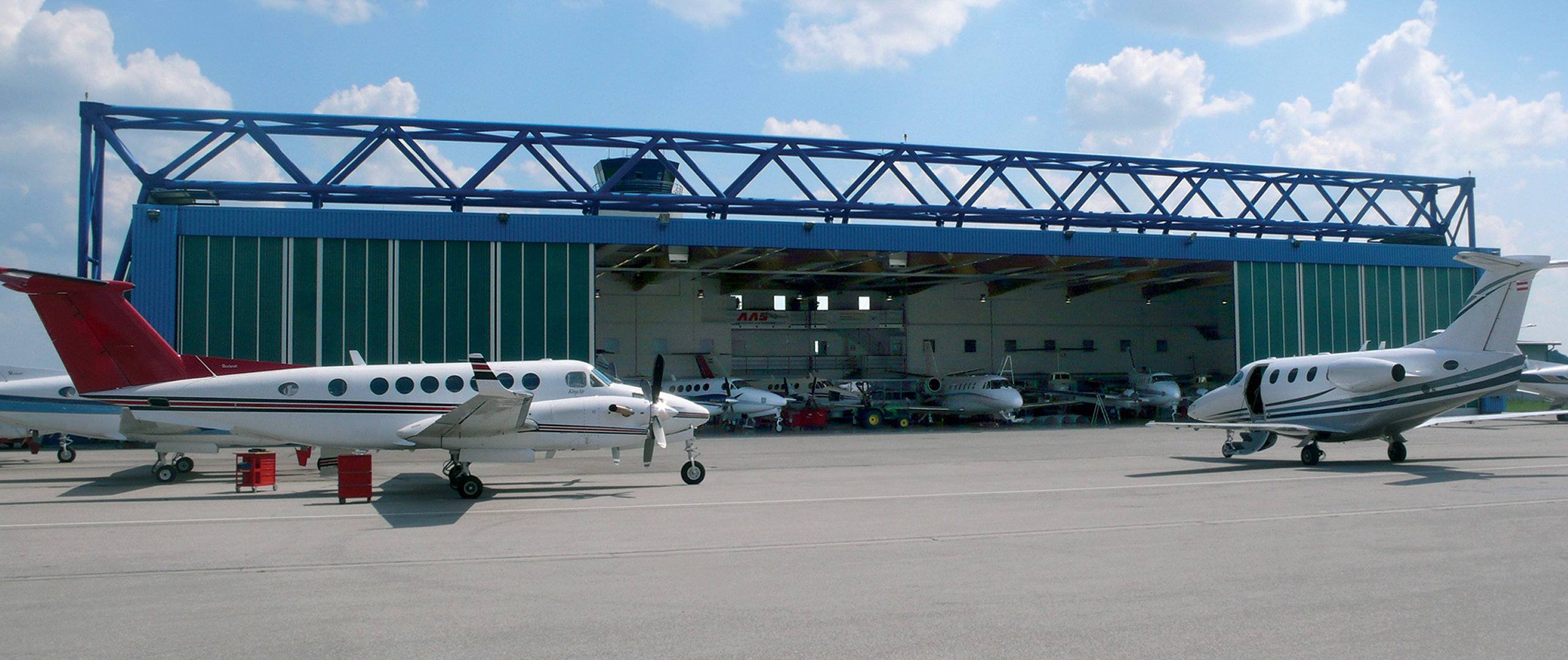 Augsburg Air Service hangar - view from the airfield